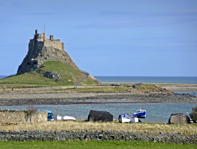 Harbour and boat sheds, Holy Island Looking across towards the harbour with the boat sheds and moored boats in the foreground and Lindisfarne Castle in the distance.